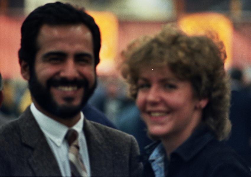 Miguel Quinteros and Isabel Hund, Chess Olympiad 1984 in Saloniki, Photographer Gerhard Hund.